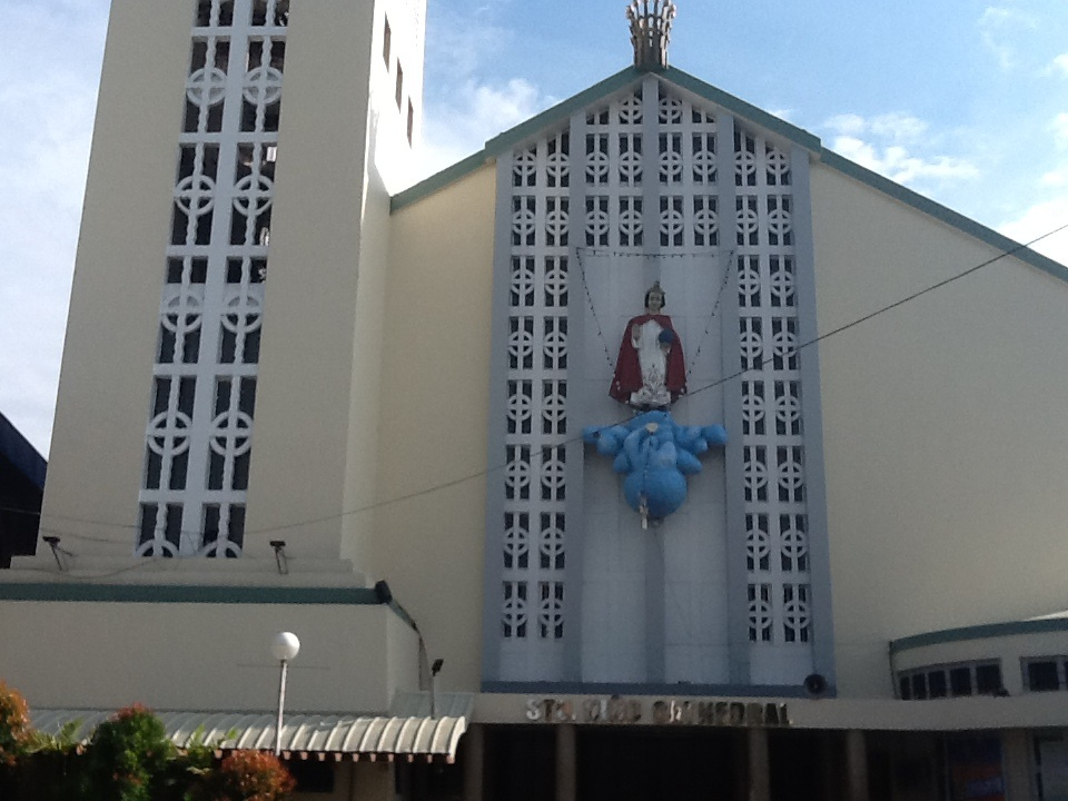 Calapan City, Oriental Mindoro, Philippines